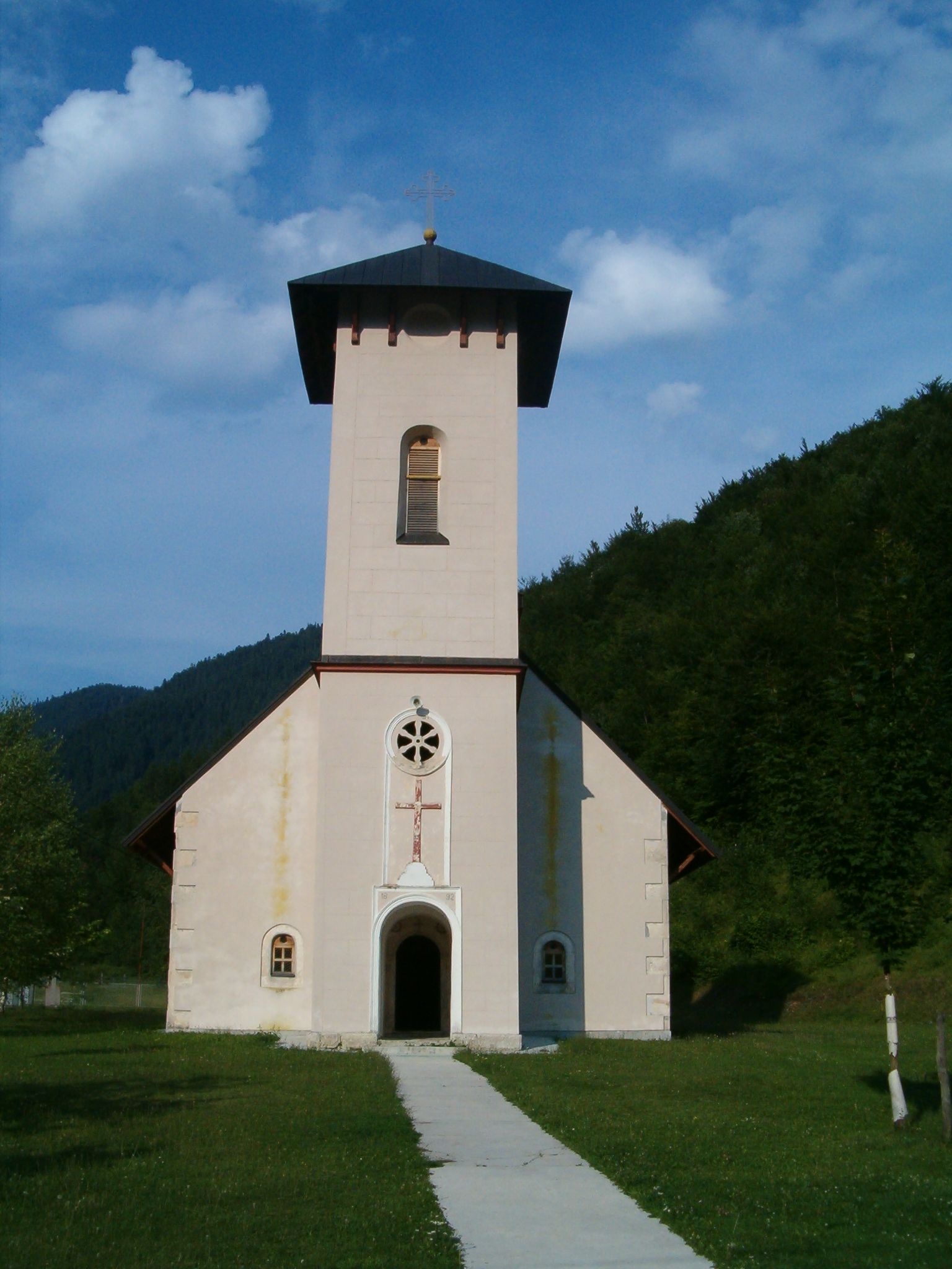 Glogovac monastery, Janj